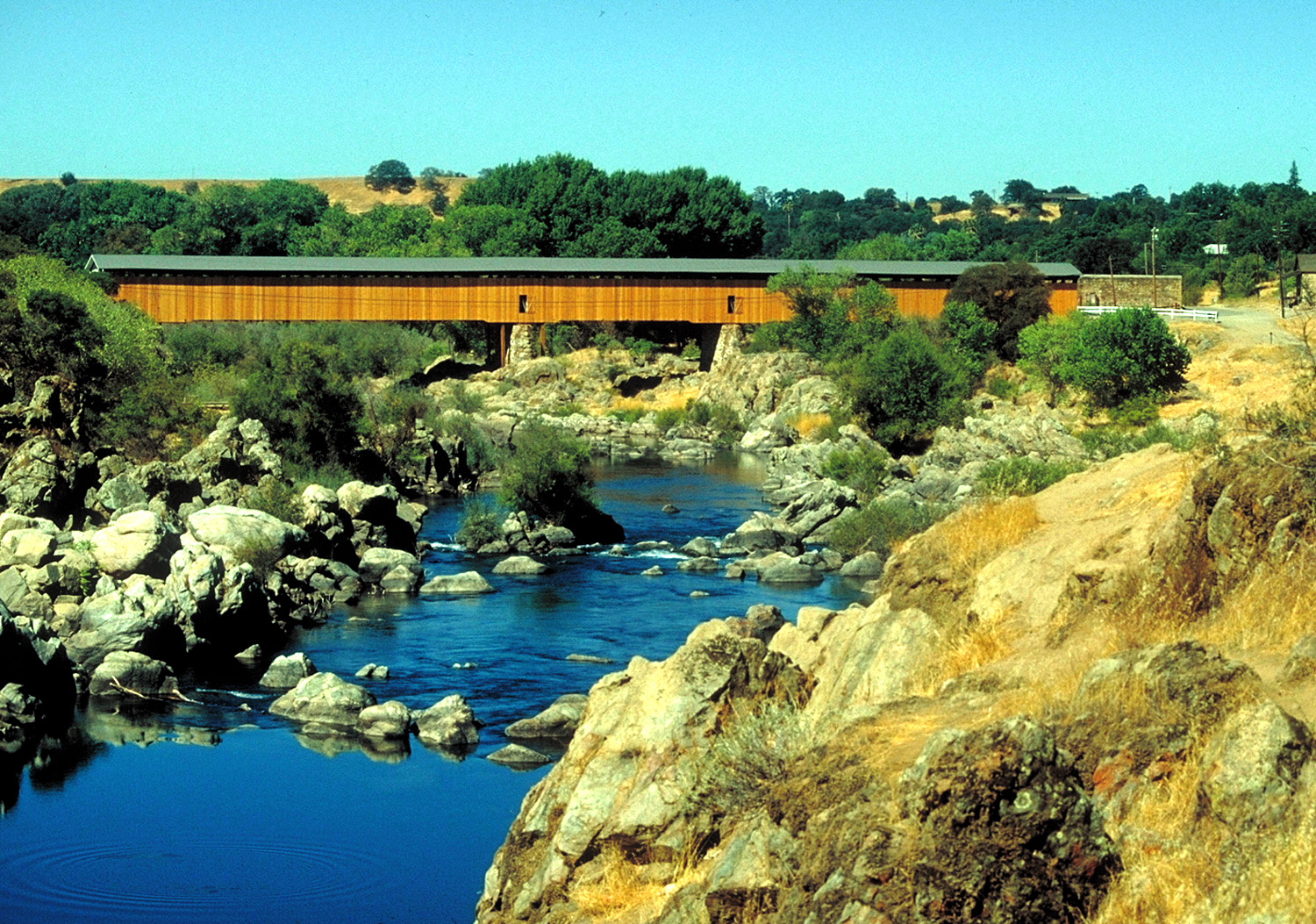 The Knights Ferry covered bridge on the Stanislaus River in Stanislaus County, California, USA. The bridge is located in the Knights Ferry Recreation Area, approximately 11 miles (18 km) east-northeast of Oakdale, California. The bridge was constructed in 1864 to replace a ferry established in 1848 by Dr. William Knight. The bridge was weakened by an overweight truck and closed to vehicular traffic in 1981. Restored by the U.S. Army Corps of Engineers, it was incorporated into the recreation area. The bridge is 330 feet (100 m) long and is the longest covered bridge west of the Mississippi River. The bridge is a National Historic Landmark on the National Register of Historic Places.